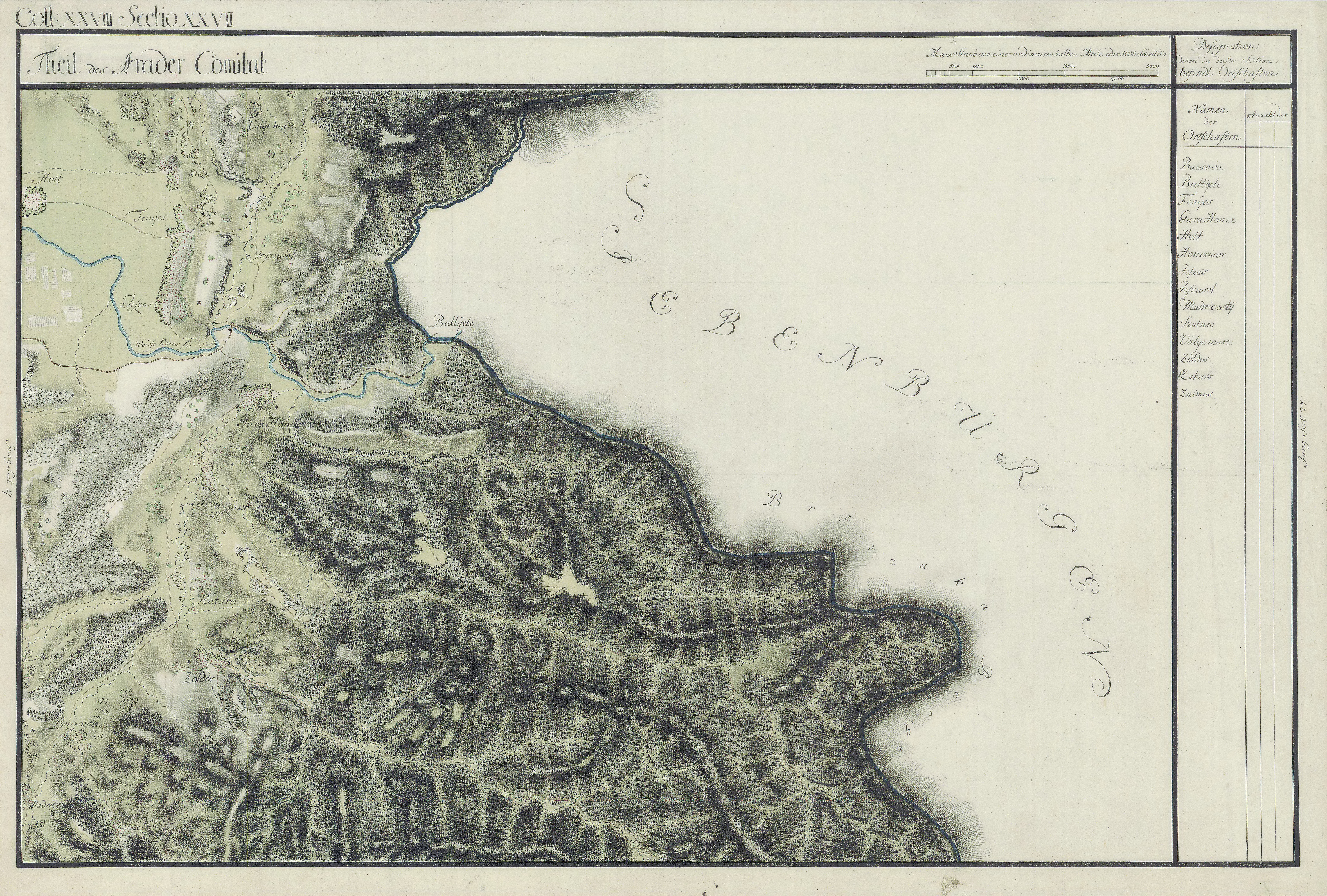 Arad County, 1782-85. Josephinische Landesaufnahme pg.28-27